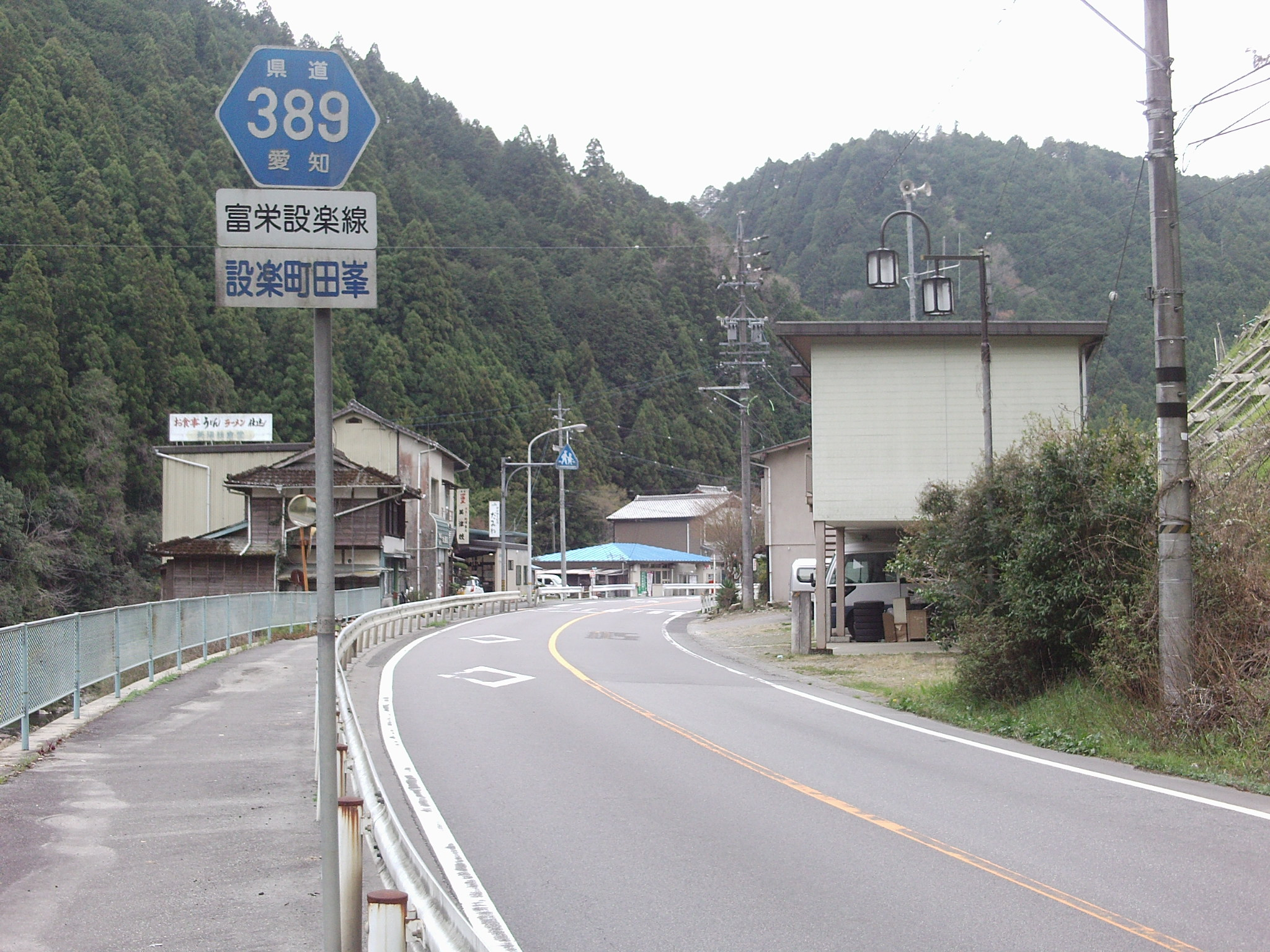 Aichi prefectural road No.389 in Damine, Shitara-cho, Kitasitara-gun, Aichi.